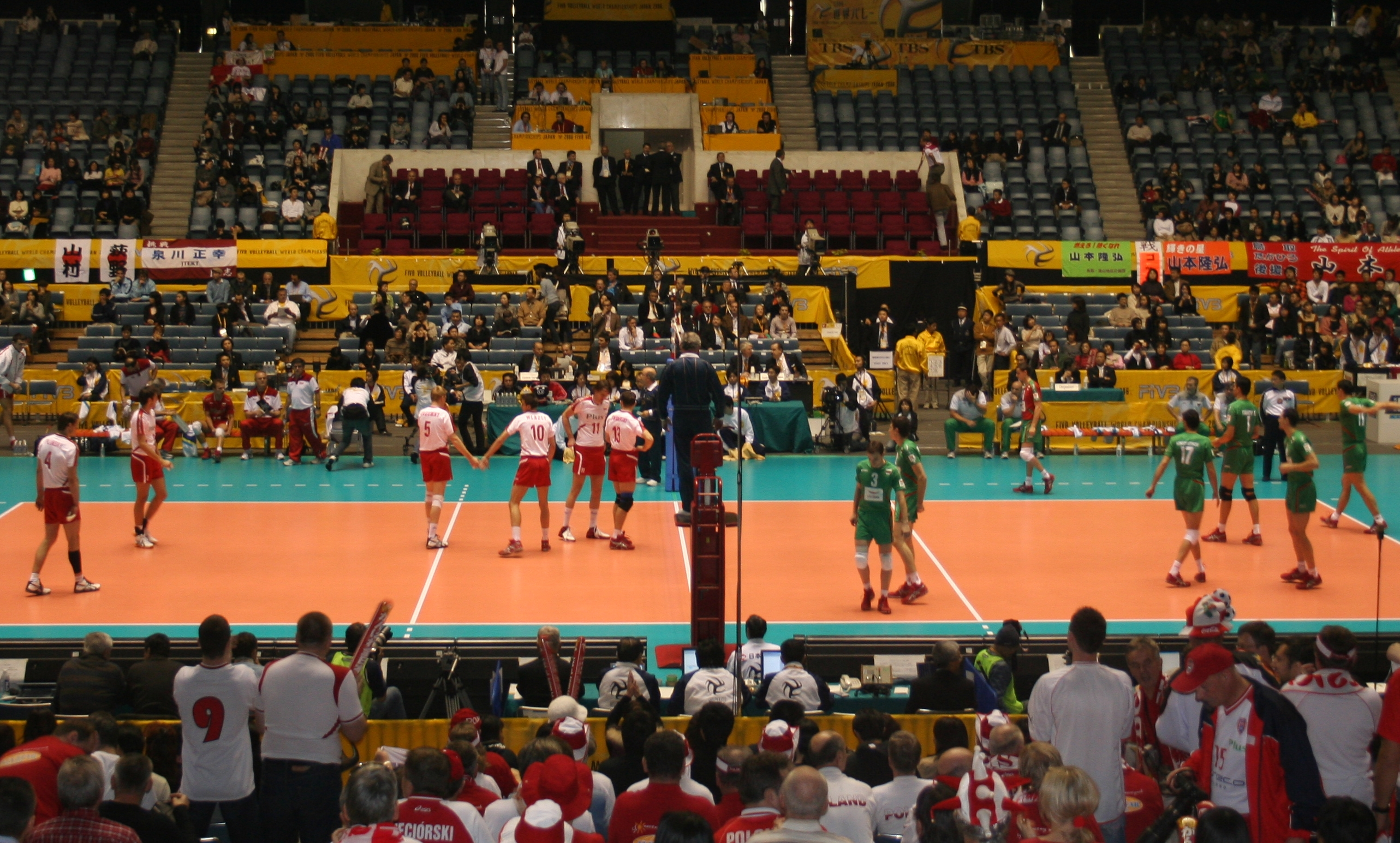 Volleyball World Cup 2006 in Japan. Semi-final between Poland (left) and Bulgaria